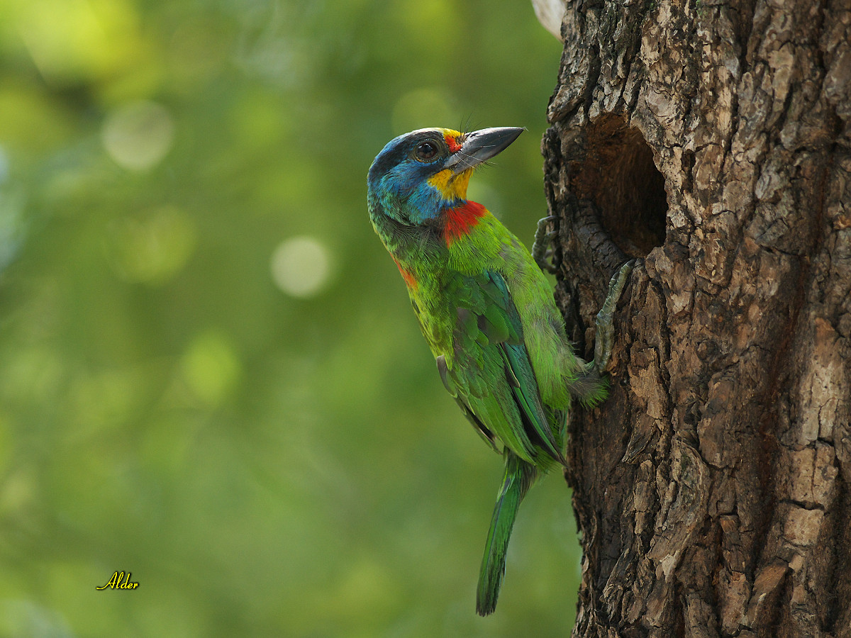 taken near Taipei Botanical Garden.